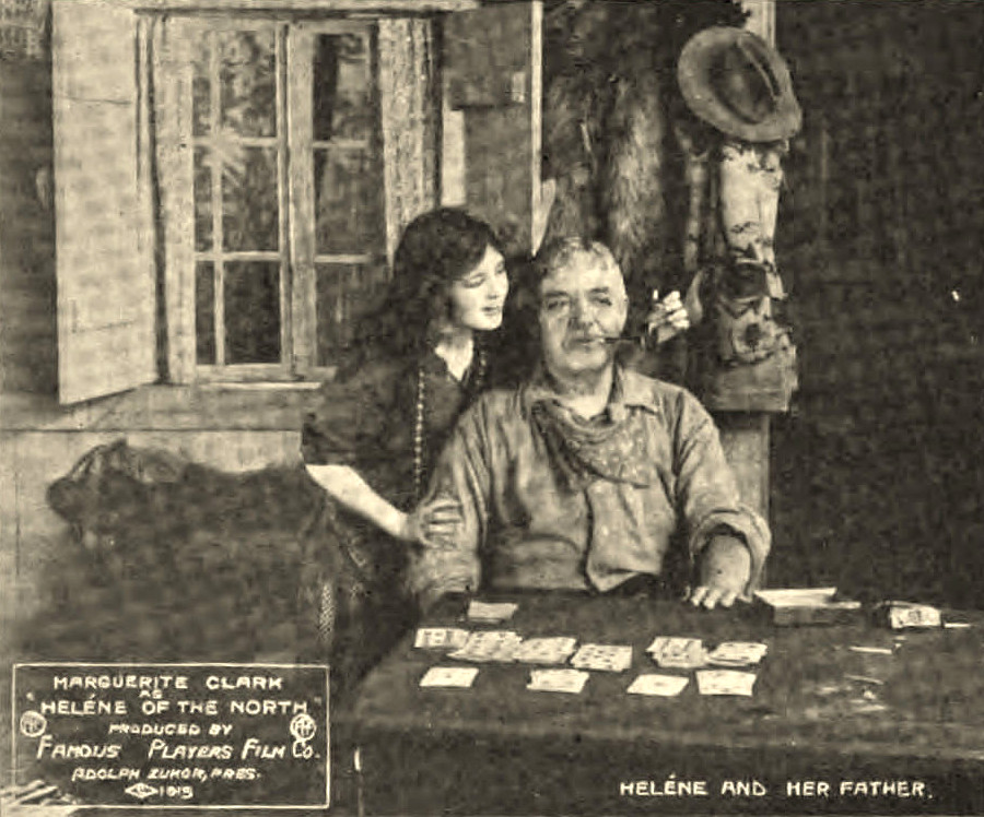 Lobby card for Helene of the North